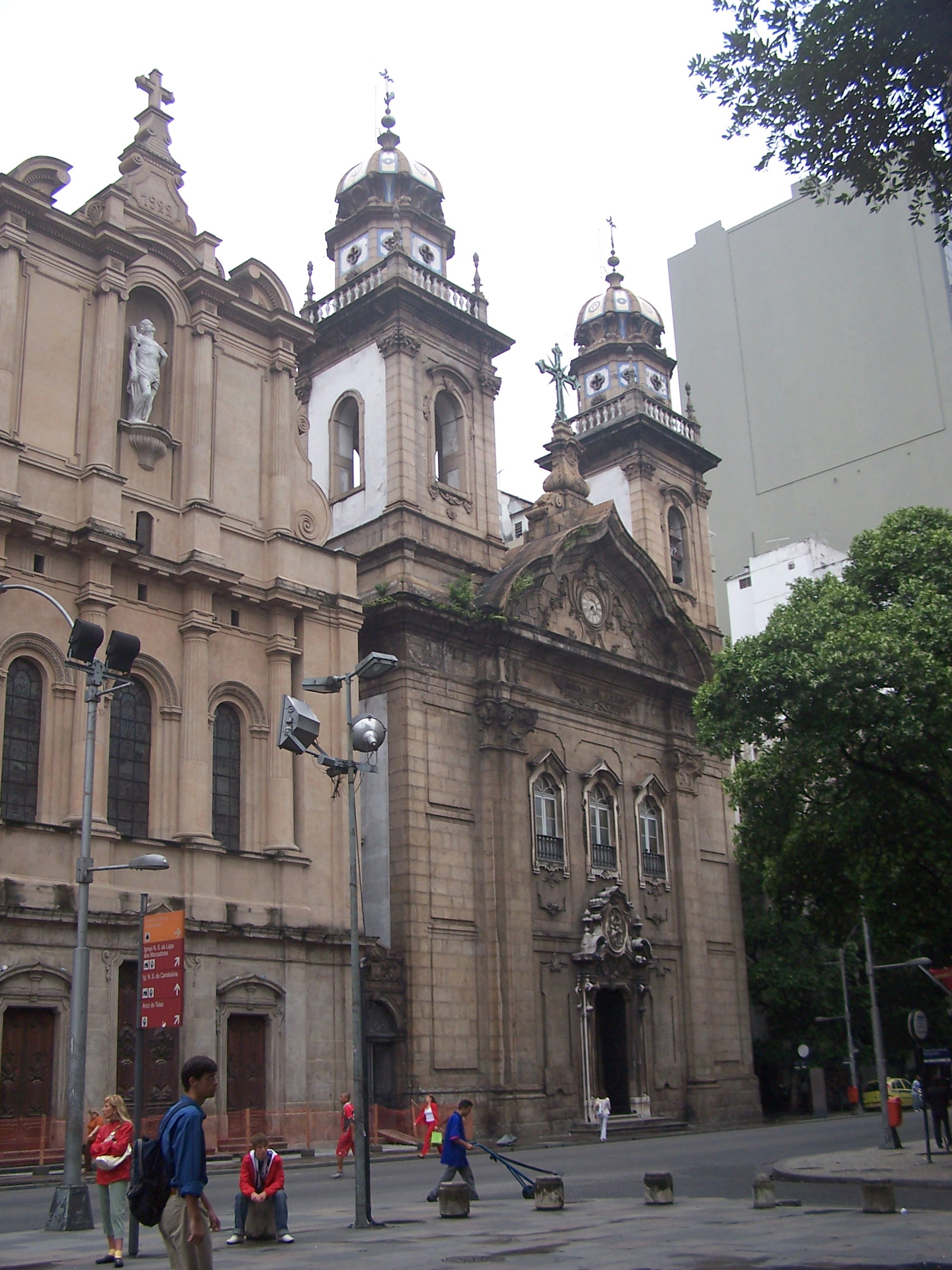 Façades of the Old Cathedral of Rio (left) and Church of Terceiros do Carmo (right) in Rio de Janeiro, Brazil.